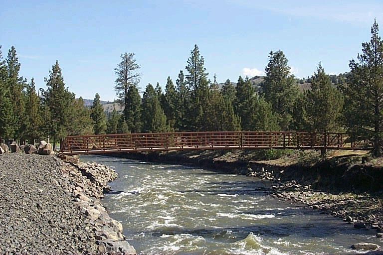 Pedestrian bridge over the Chewaucan River on the Chewaucan Crossing Trail in the Fremont National Forest, Oregon, USA.